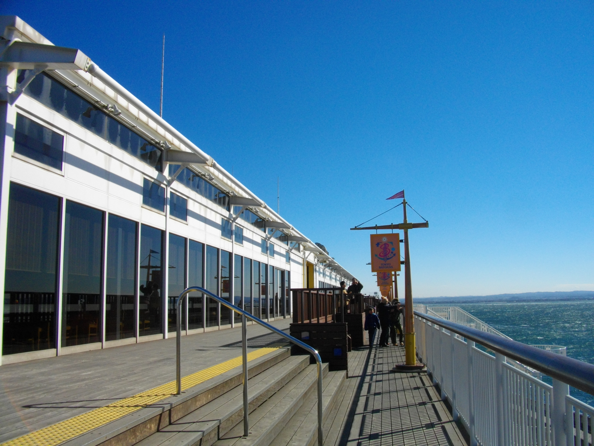 Umihotaru Parking Area